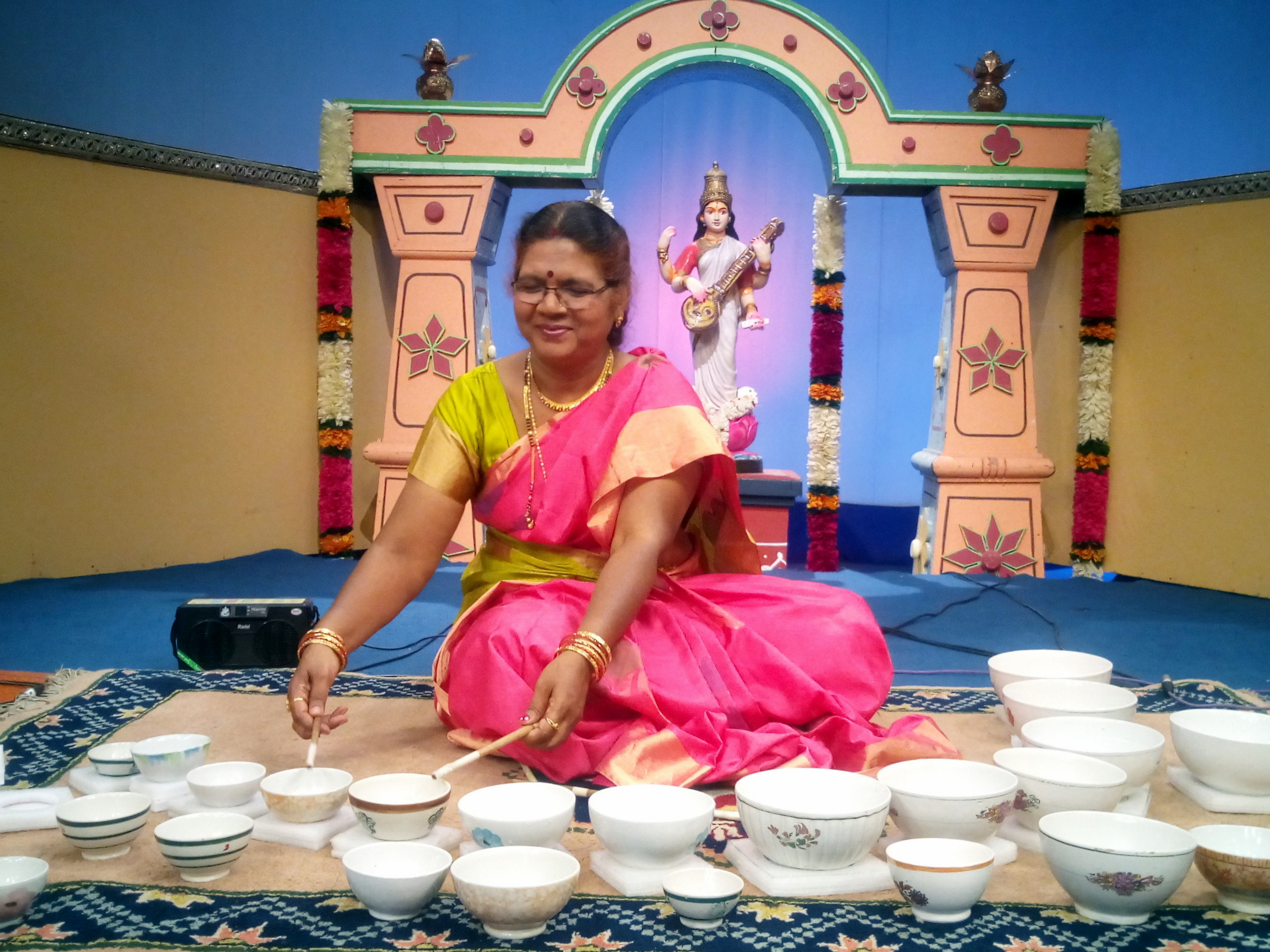 Jaltarang music concert by Vidushi Shashikala Dani at Doordarshan